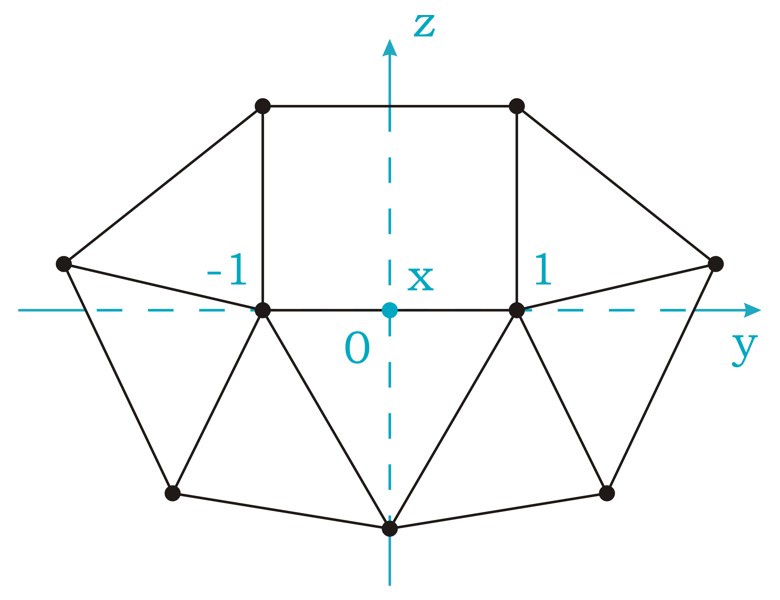 Sphenomegacorona in Cartesian coordinate system: side view (yOz projection)